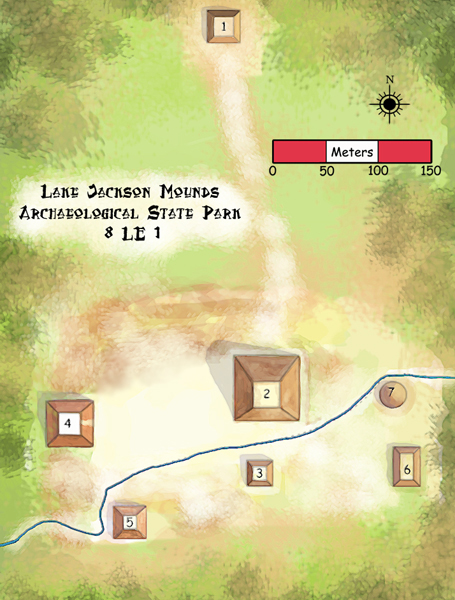 A map showing the geographic extent of the Fort Walton culture Lake Jackson Mounds Archaeological State Parkpre and protohistoric in northern Florida. The cultures were a regional variation of the South Appalachian Mississippian culture.